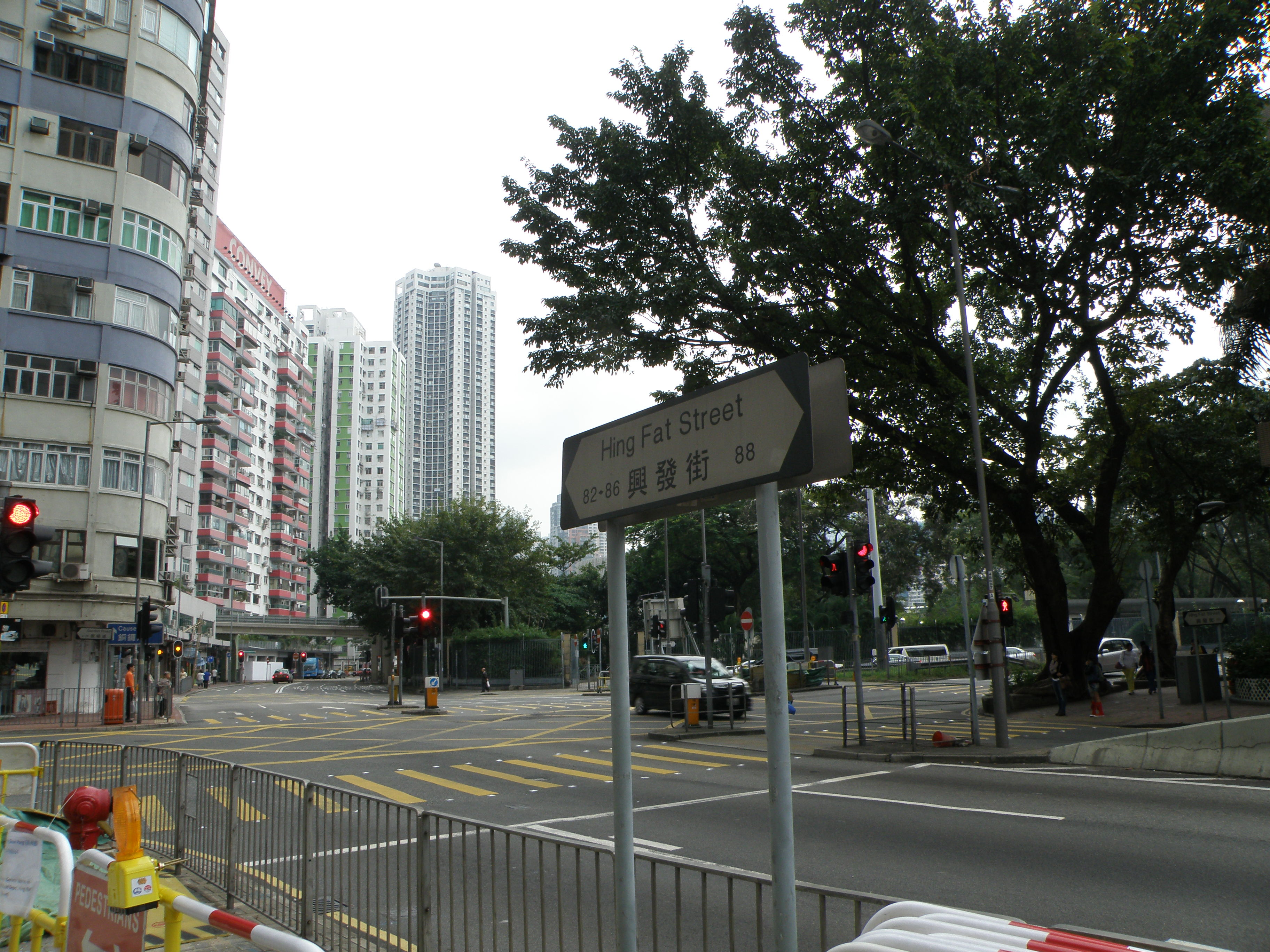 Hing Fat Street in Tin Hau, Hong Kong.